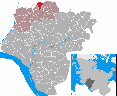 This map shows the area of the municipality Warringholz in the Kreis (district) Steinburg, Schleswig-Holstein, Germany.